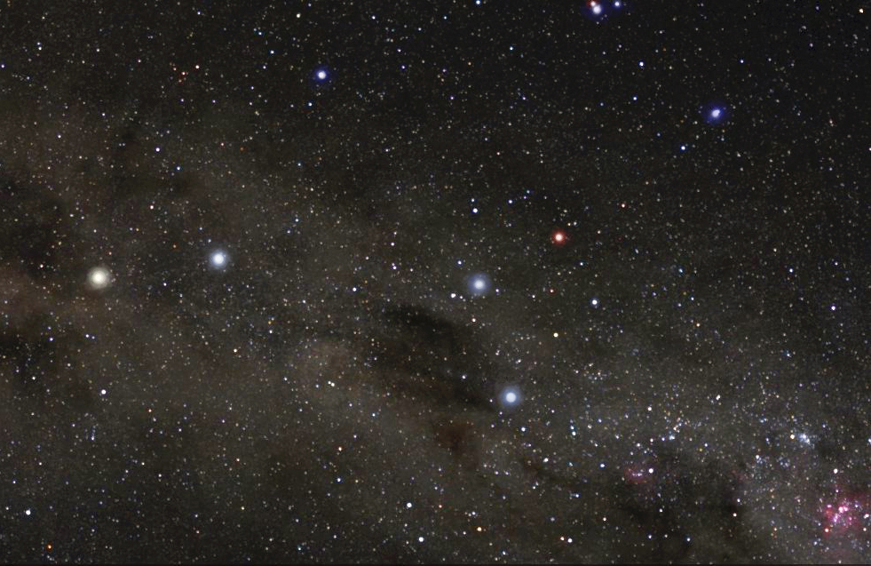 Southernmost part of the Milky Way; taken from South India with a Konica Minolta digicam, 5sec exp